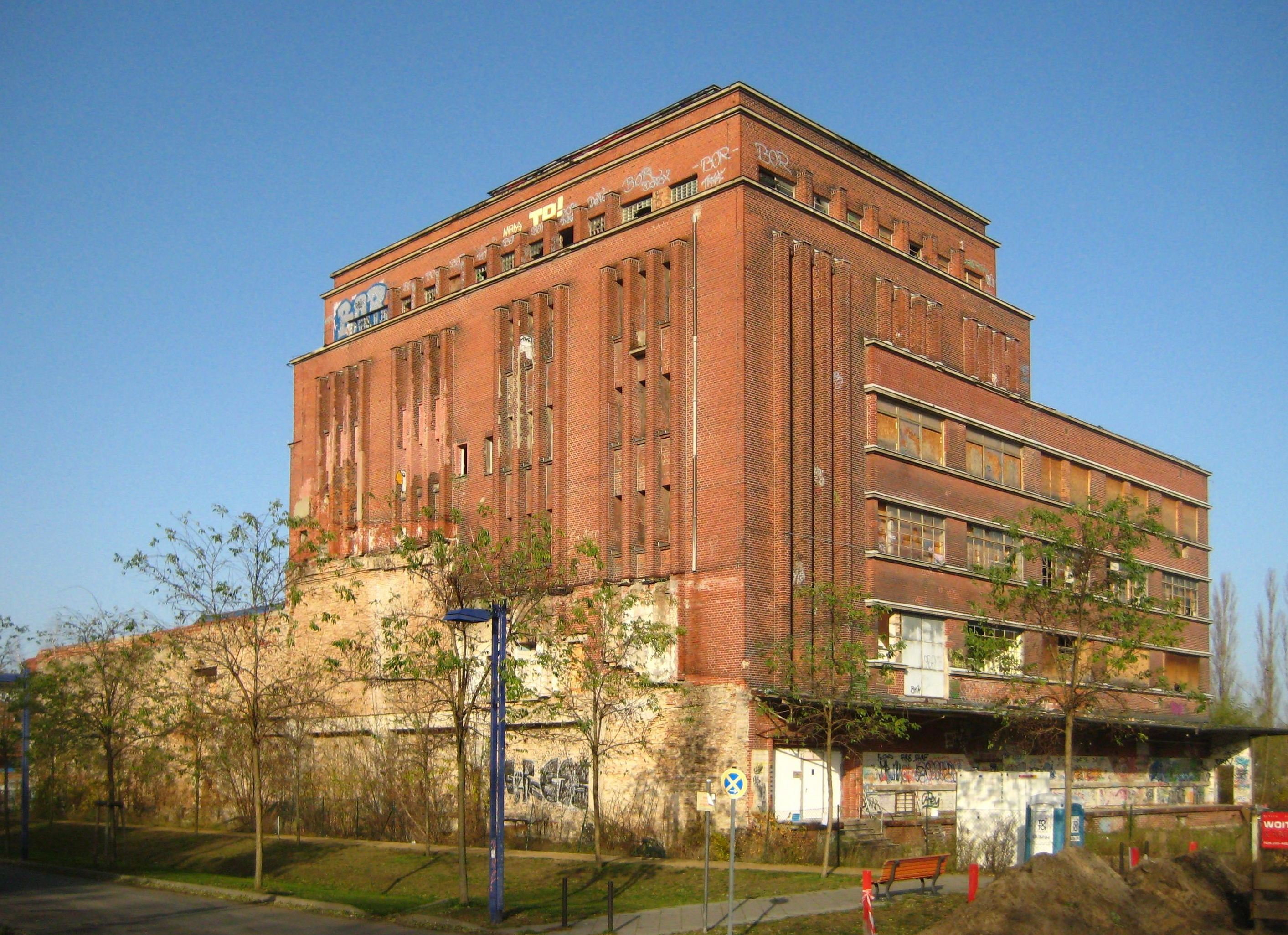 Former storage building of the Engehardt Brewery ("Bottle Tower") at Krachtstraße No. 9 on the Stralau Peninsula in Berlin-Friedrichshain. It was built from 1929 to 1930 to a design by Bruno Buch. It has been designated as a historic landmark.